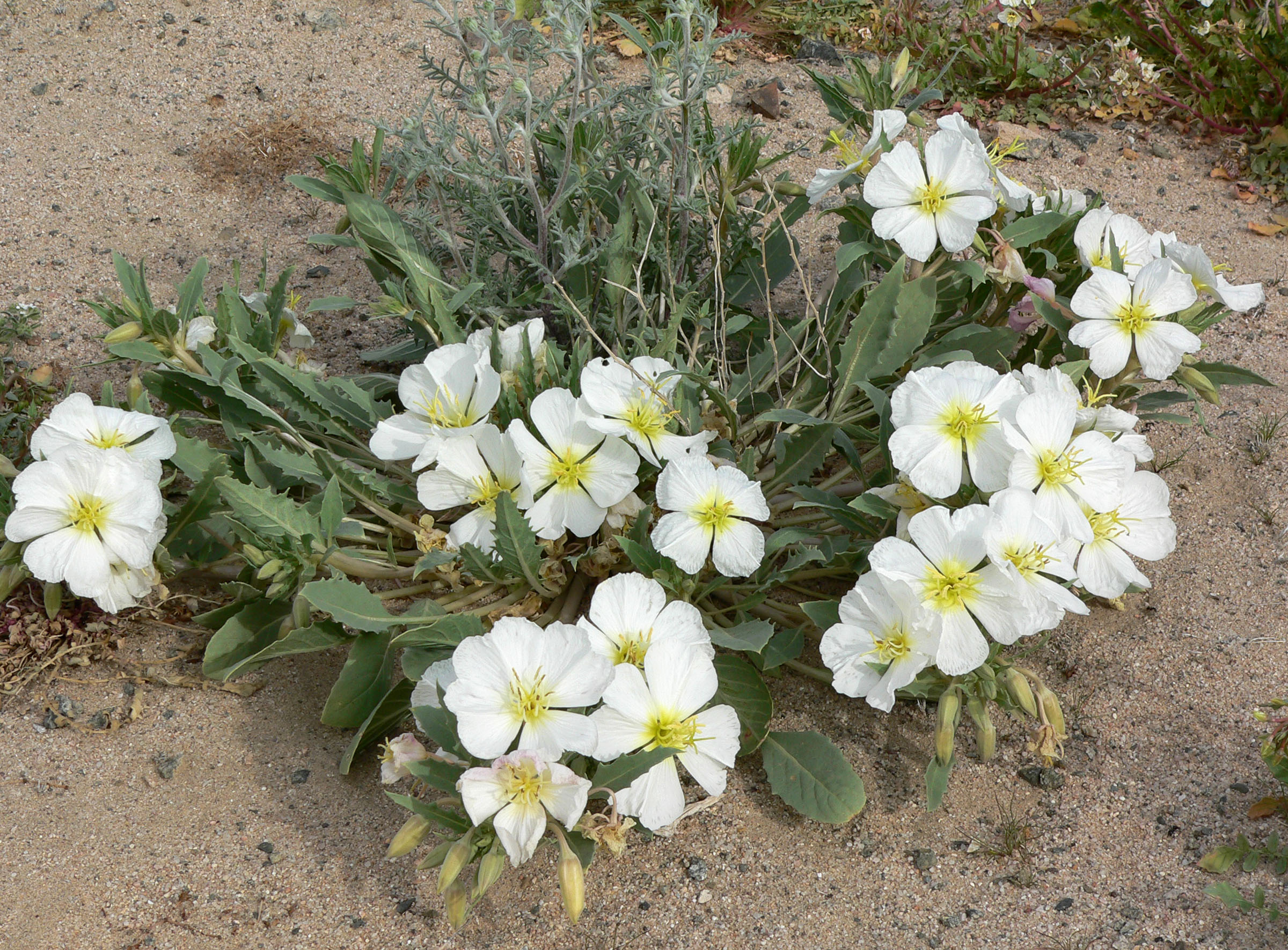 Oenothera deltoides subsp deltoides in sand below hills by Soda Dry Lake, 3 km south of Baker, California